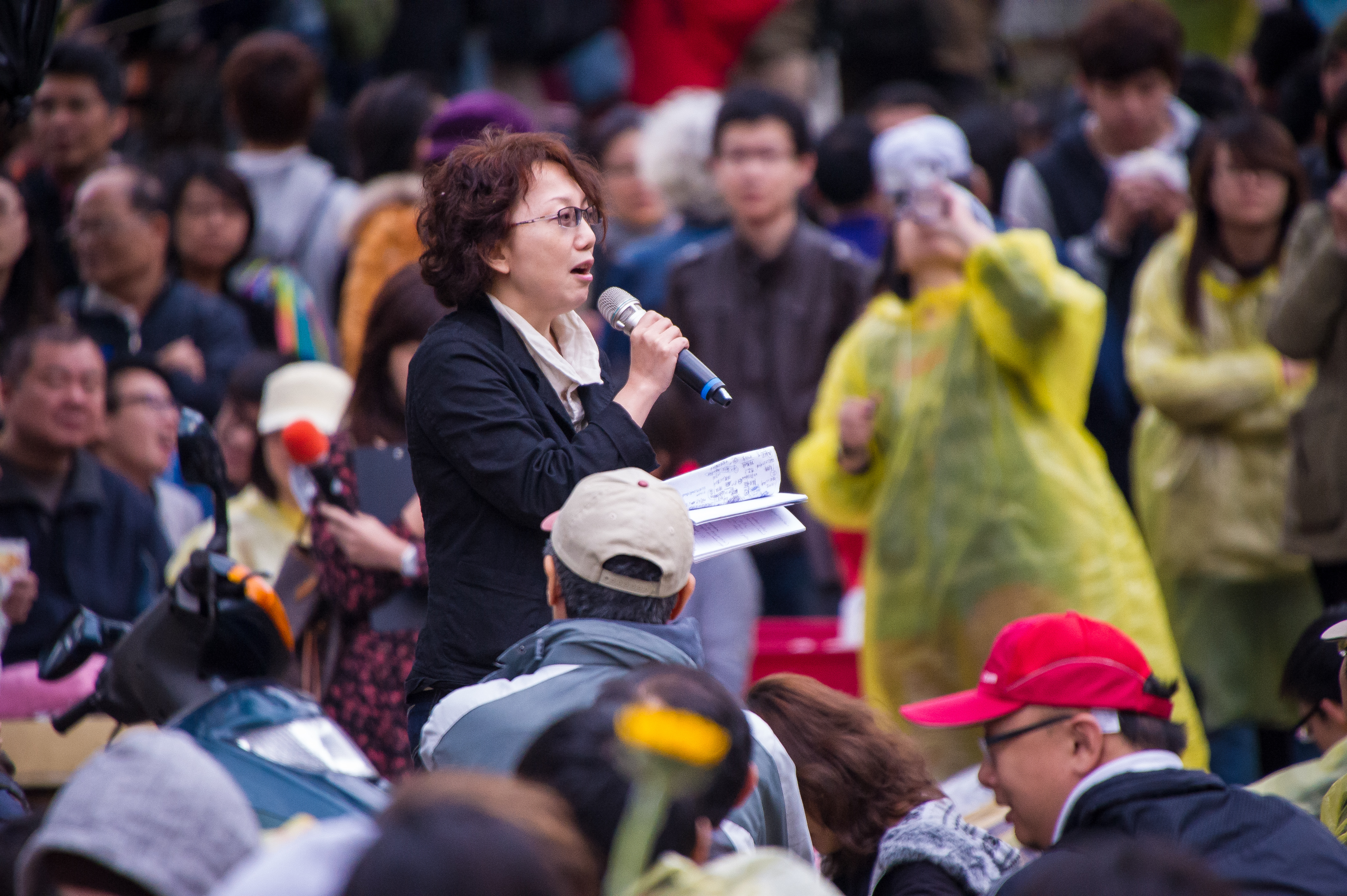 Professor from National Taiwan Univerisity Sunflower Movement